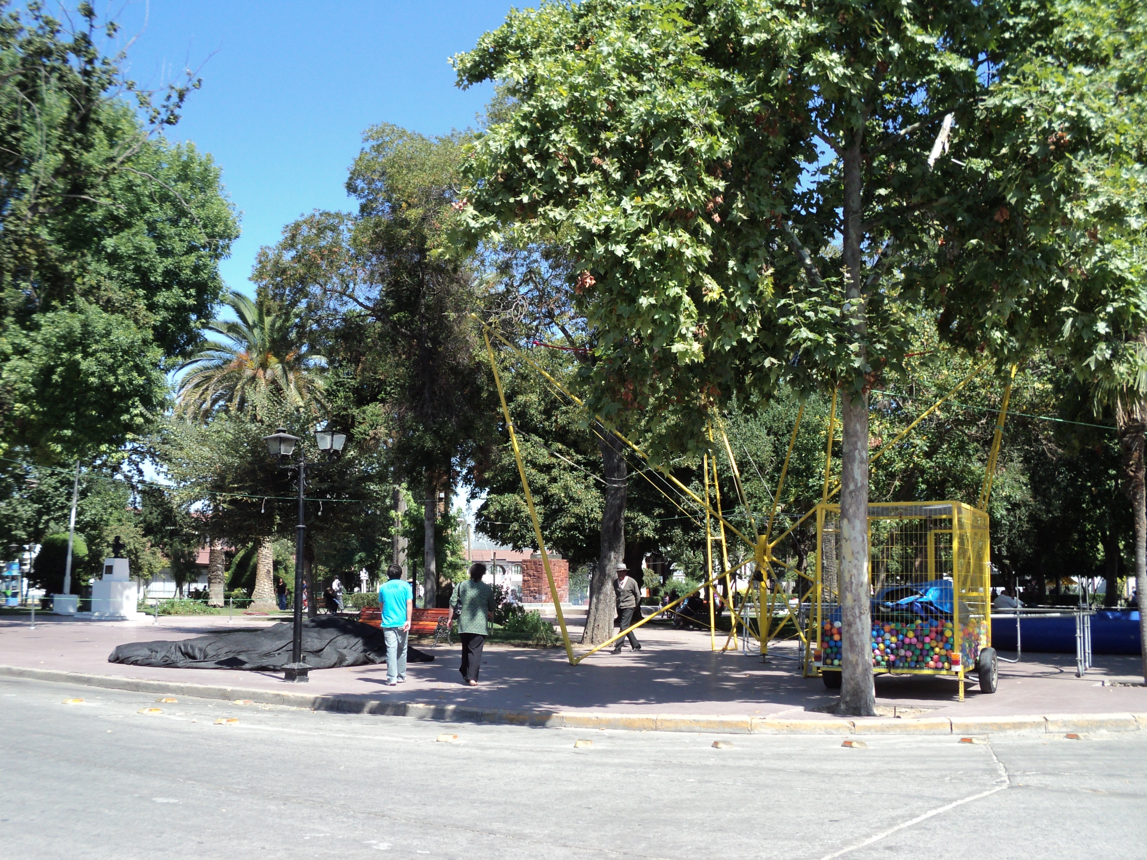 Main square of Casablanca, as seen from one of its corners.